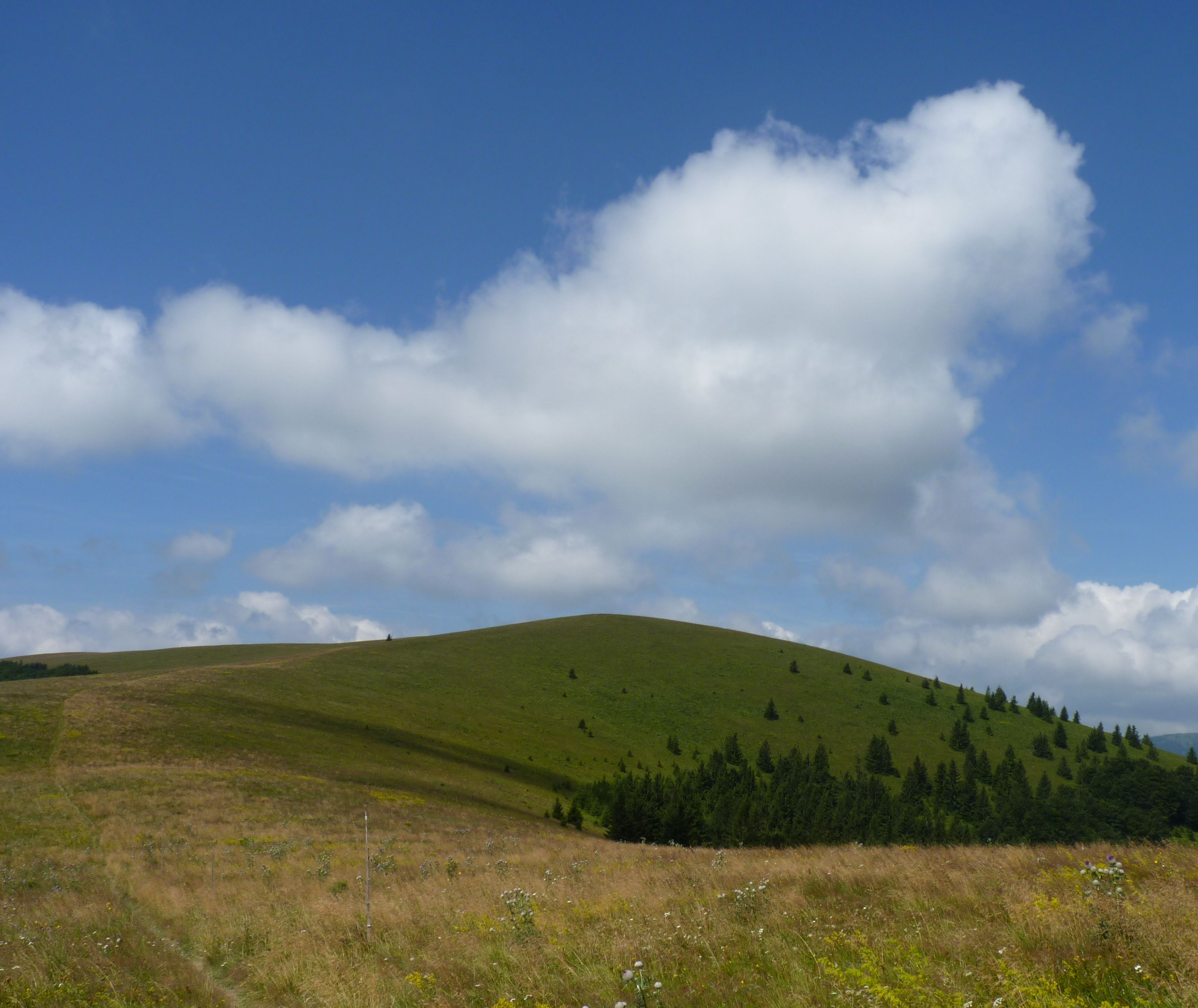 Kečka. Low Tatras, Slovakia